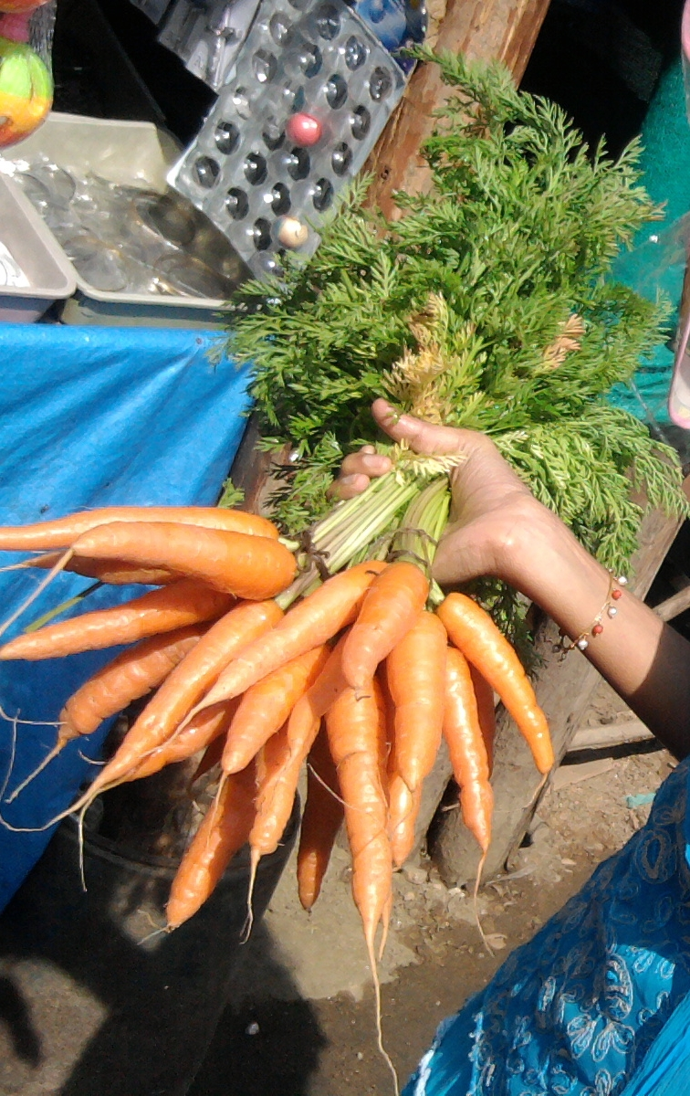 Bunch of Carrot